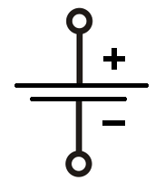 Power source for electric circuits